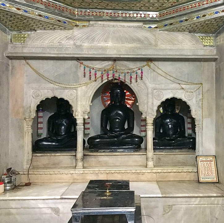 Papauraji Bhoyra Idols